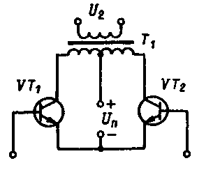 Derevenets_mew_1